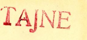 "Secret" marking on Polish Army document